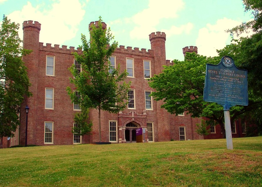 Wesleyan Hall at the University of North Alabama.